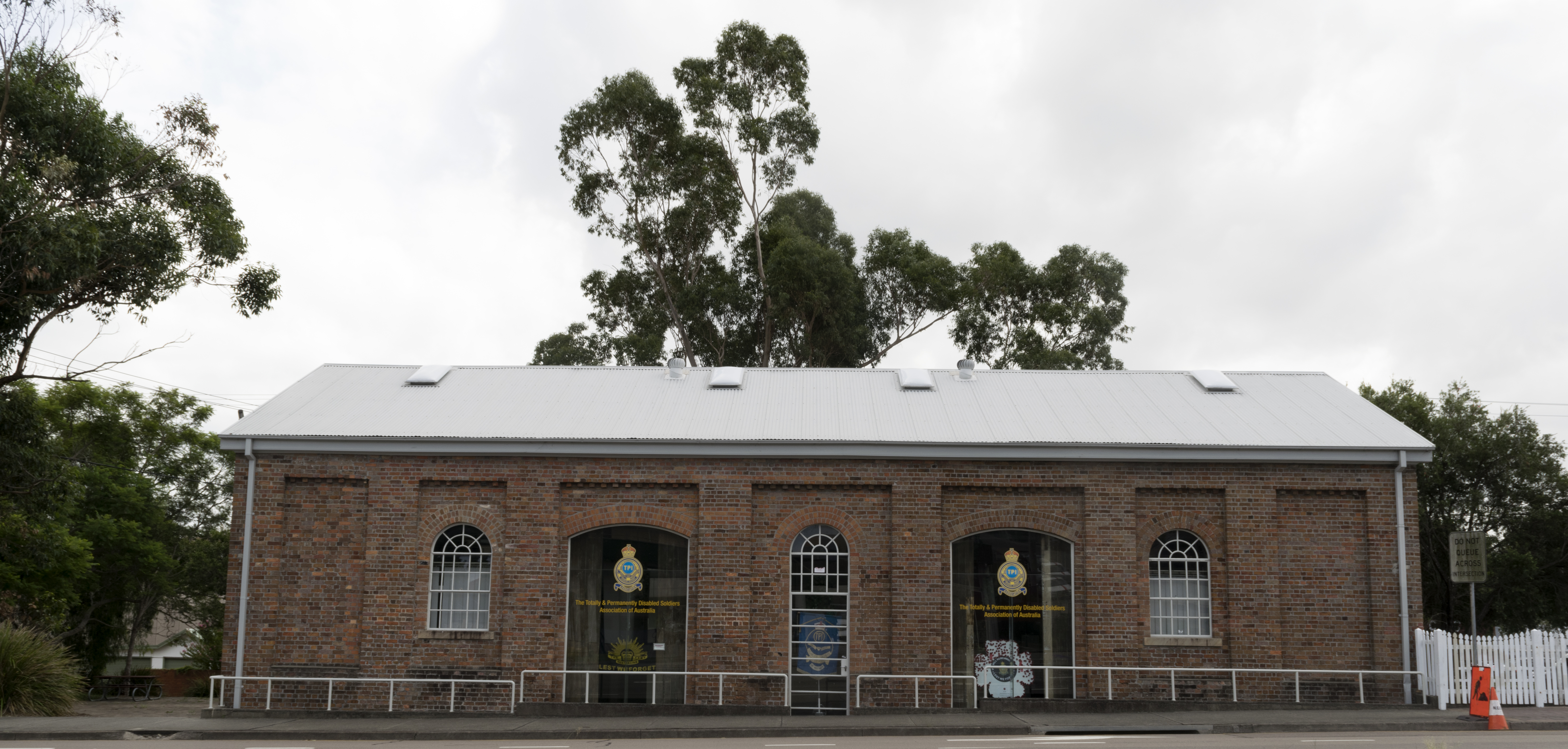 Railway Goods Shed, Wallsend. As at 2018, the building is used as an office by the Totally & Permanently Incapacitated Veterans' Association of New South Wales